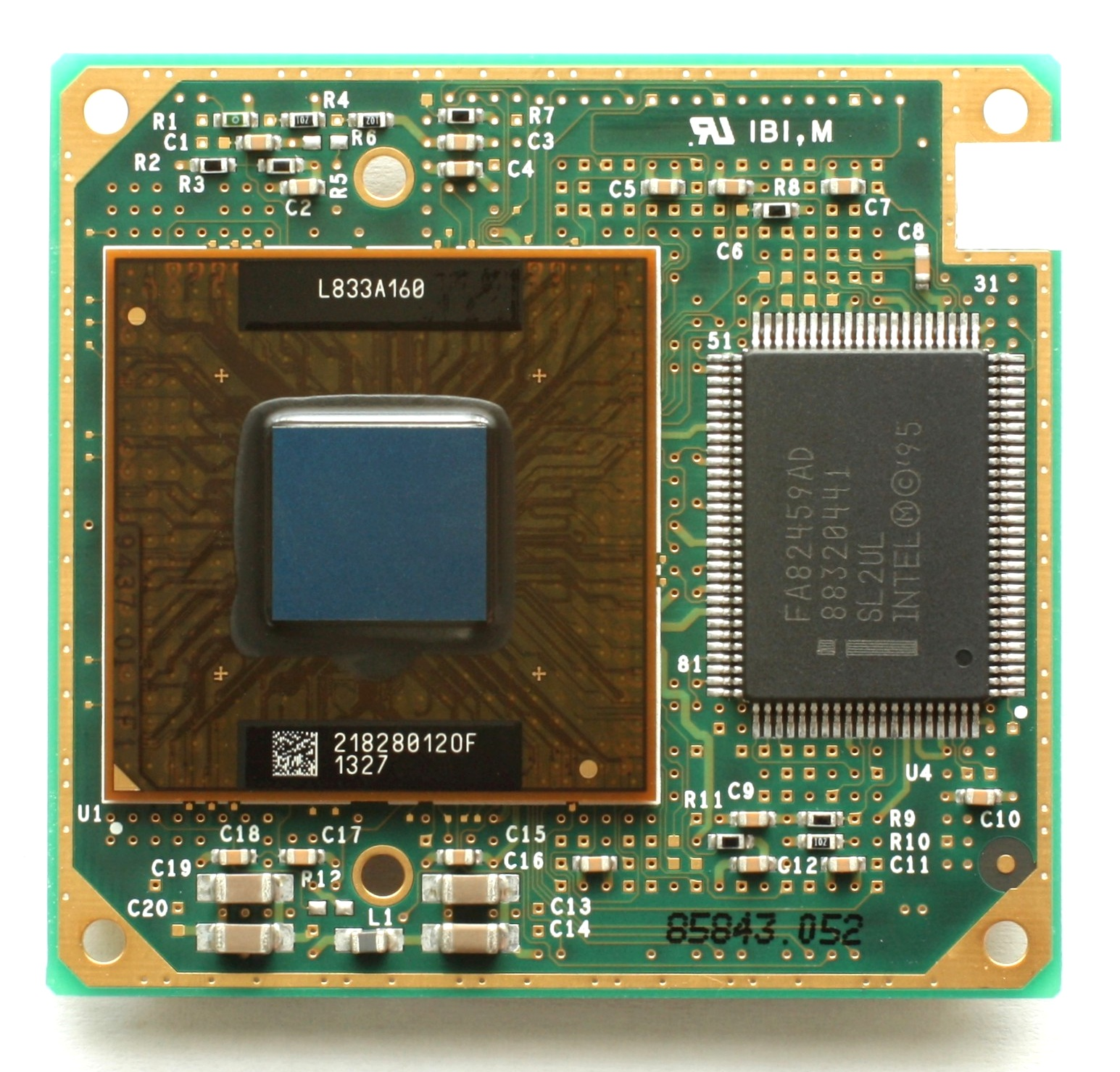 CPU Intel Mobile Pentium II Tonga without case